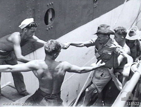 Kuching, Sarawak, Borneo. 1945-09-13. Kuching Force. Released Australian Prisoners of War (POWs) being transferred to the hospital ship Wanganella by Harbour Defence Motor Launch (HDML) Q1343 of the RAN. Here one of the men is assisted aboard the Wanganella by naval ratings.